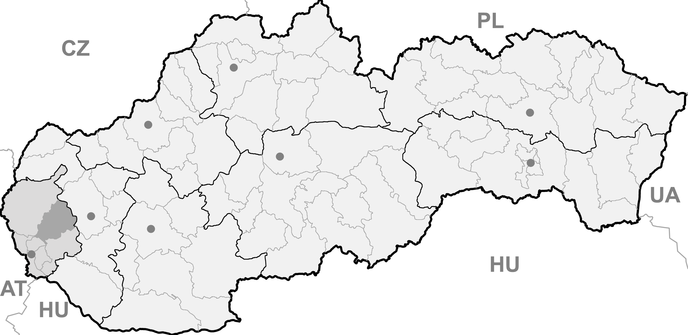 Map of Slovakia, Pezinok district and Bratislava region highlighted